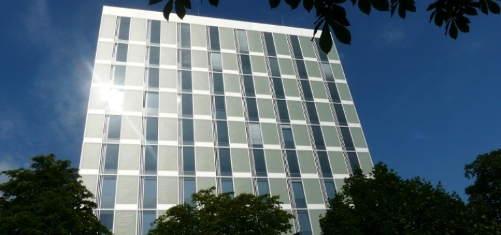 AVIAREPS Headquarter in Munich, Germany